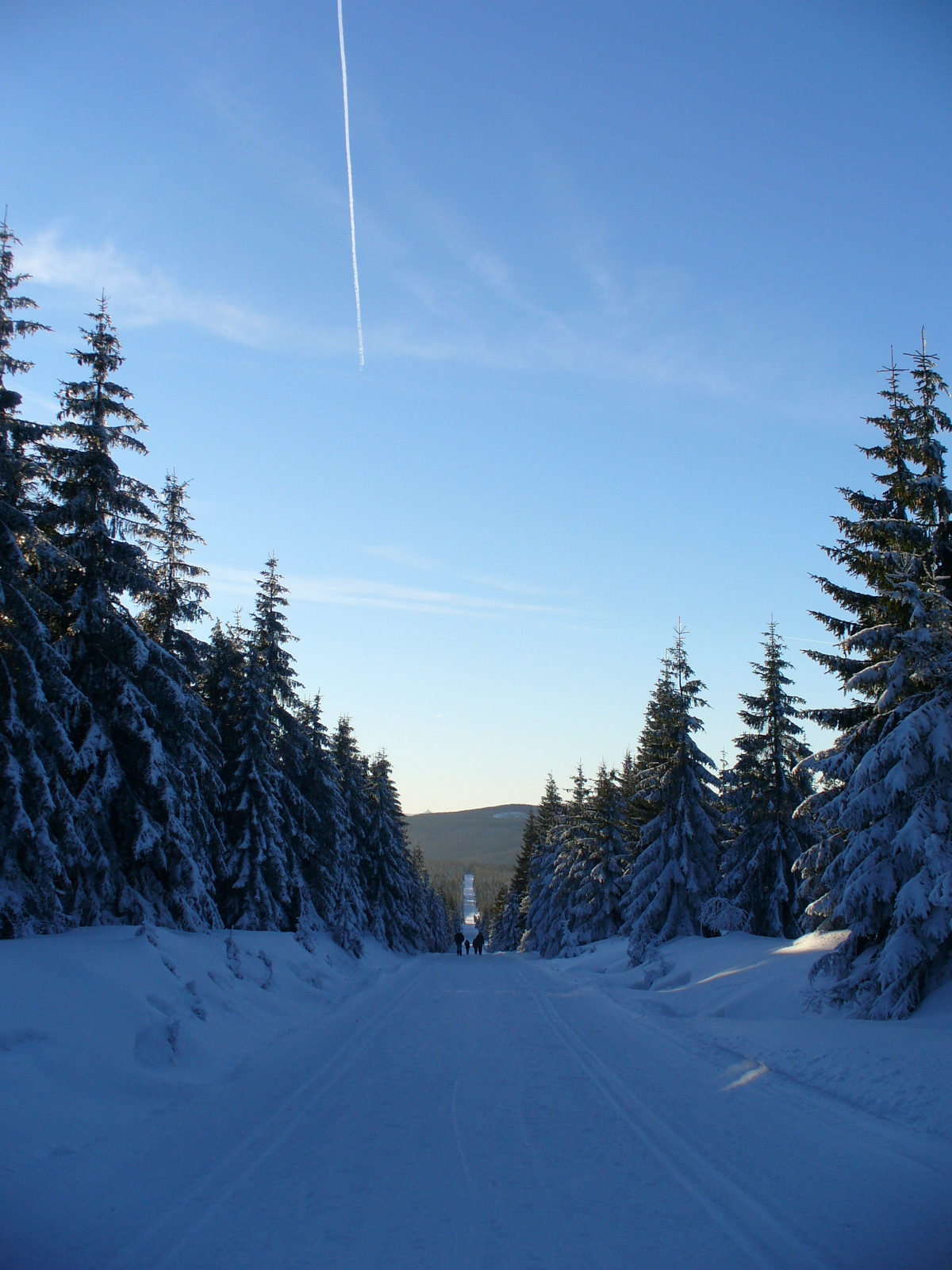 Jizera Mountains - road to Carlsthal (Orle).